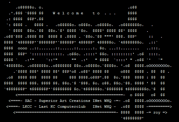 Closed Society 2 ASCII Screen Shot ASCII by Carsten Cumbrowski aka Roy/SAC [1] Converted to .PNG by Wikiviewer. Original file at Image:Roy-csnewskool.gif Released into Public Domain, see Source for verification